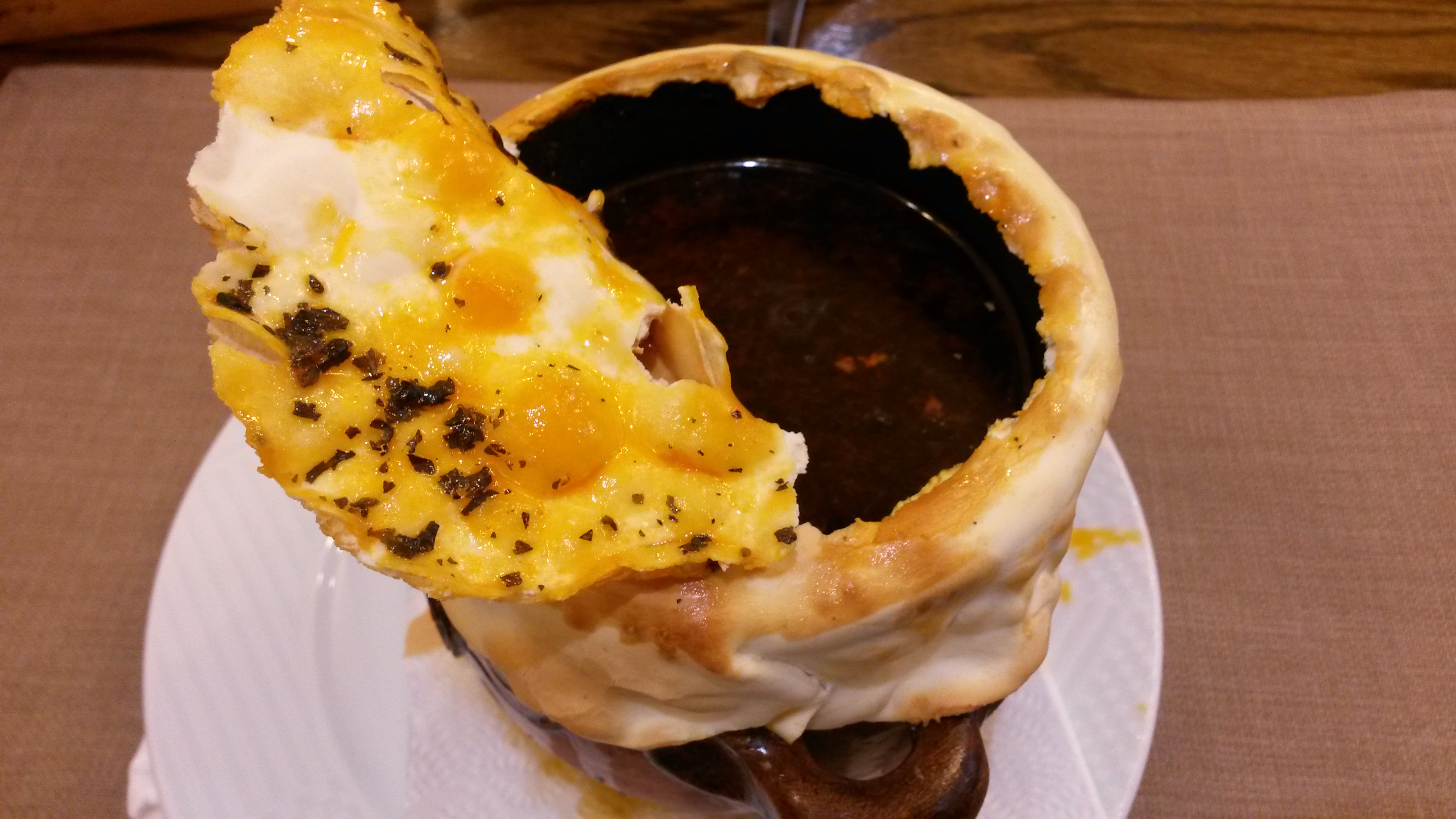 Piti (a type of soup with lamb meat and dried peas)